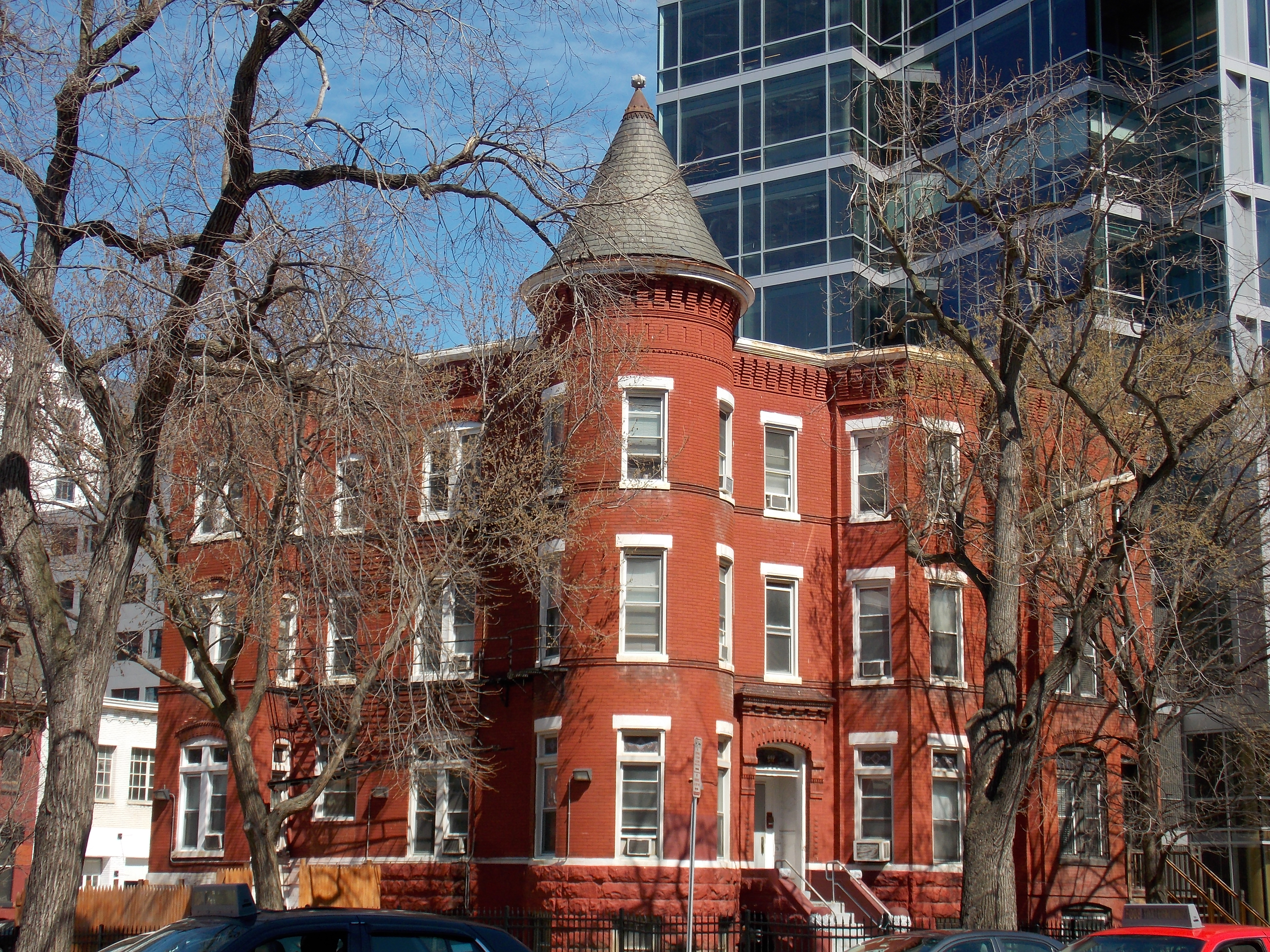 457-59 Massachusetts Avenue is a contributing property in the Mount Veron Triangle Historic District